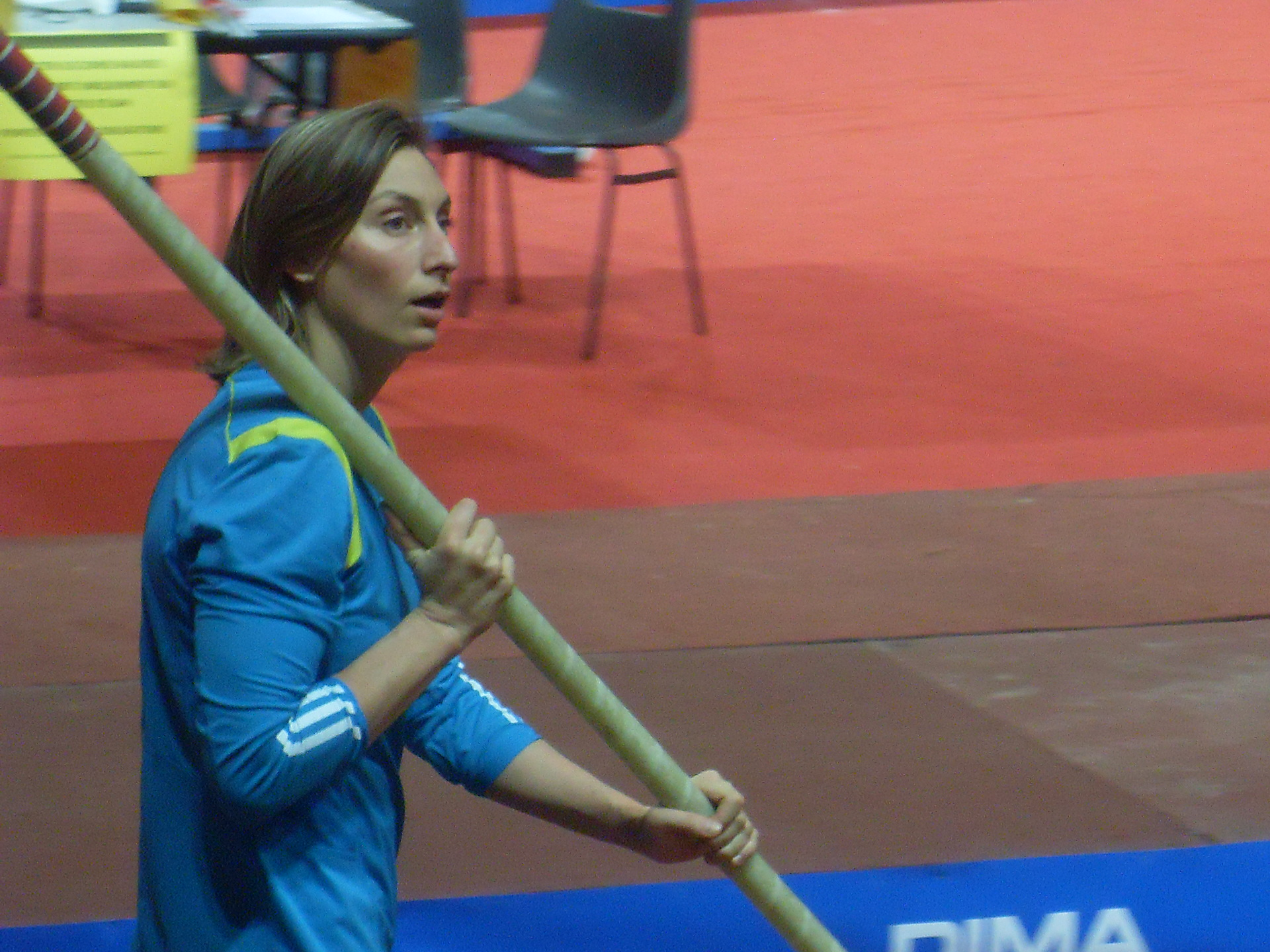 Vanessa Boslak in Palais des Sports of Orléans at the Perche Élite Tour meeting the 11th December 2011